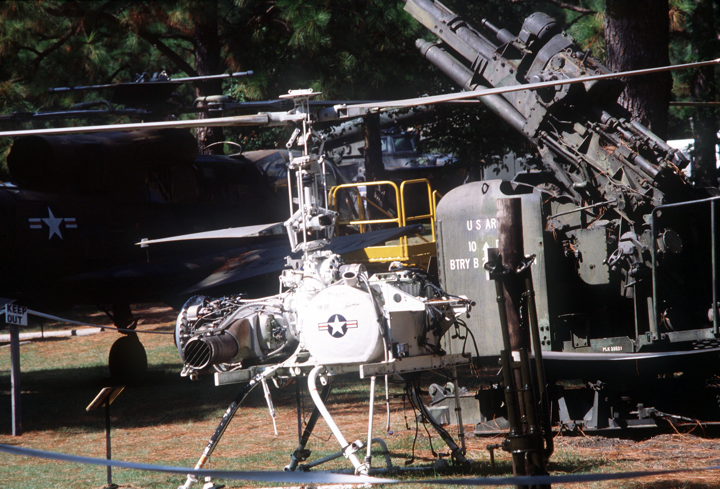 A remote control QH-50 drone helicopter on display beside an M118 90 mm anti-aircraft gun at the Fort Polk Military Museum outdoor park. Location: FORT POLK, LOUISIANA (LA) UNITED STATES OF AMERICA (USA)